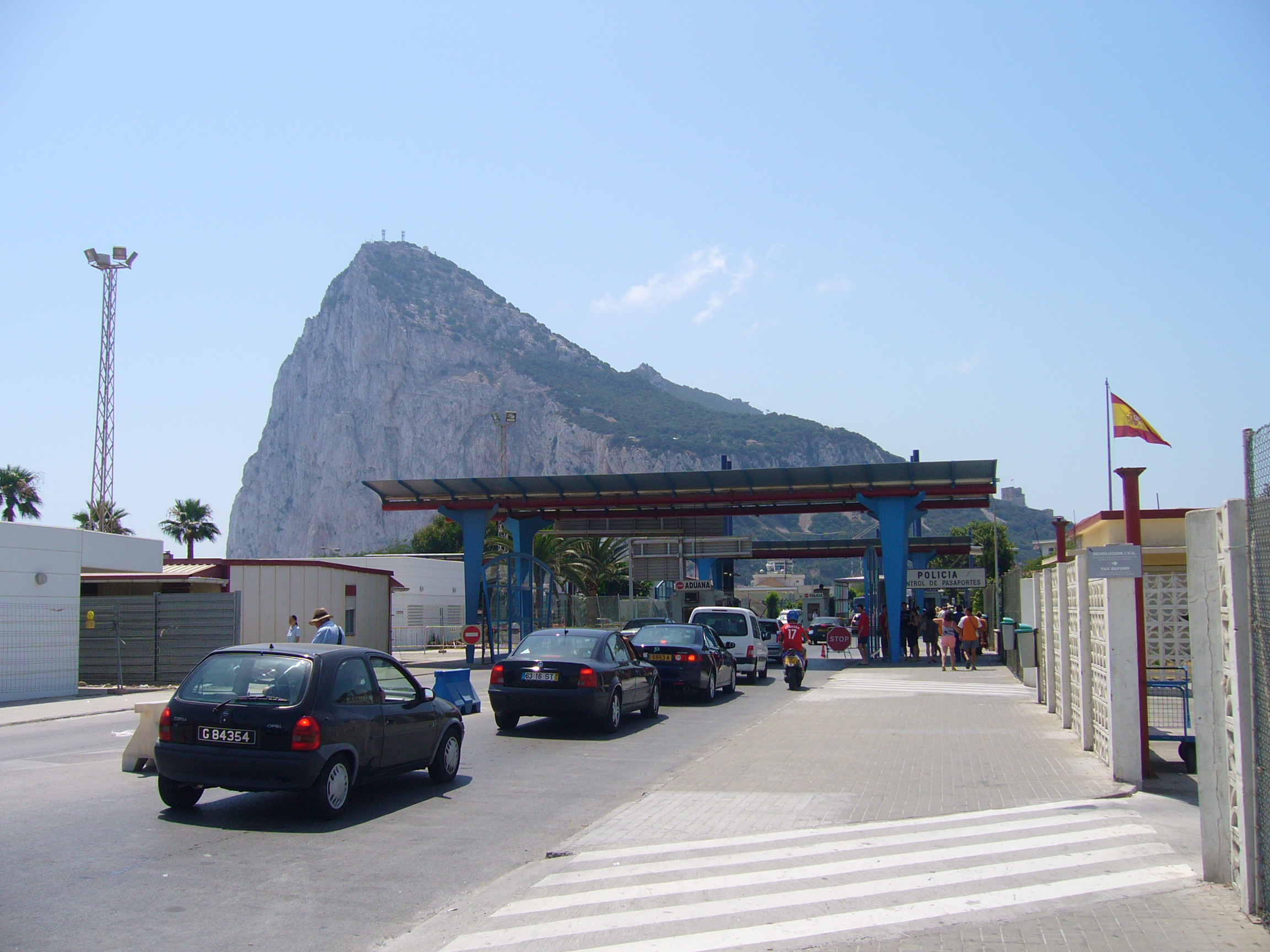 Gibraltar from the Spanish side of the border.